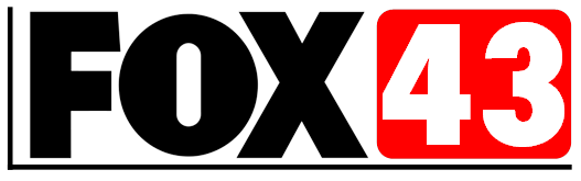 Former logo of the television station WPMT